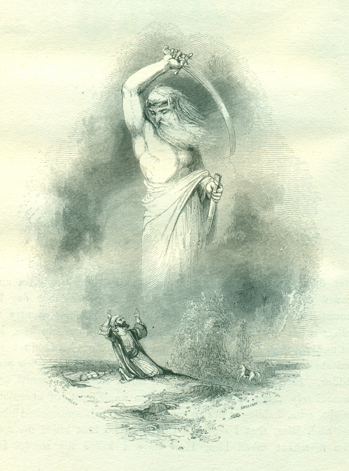 Woodcut Illustration to The Story of the Merchant and the Jinnee from the Arabian Nights